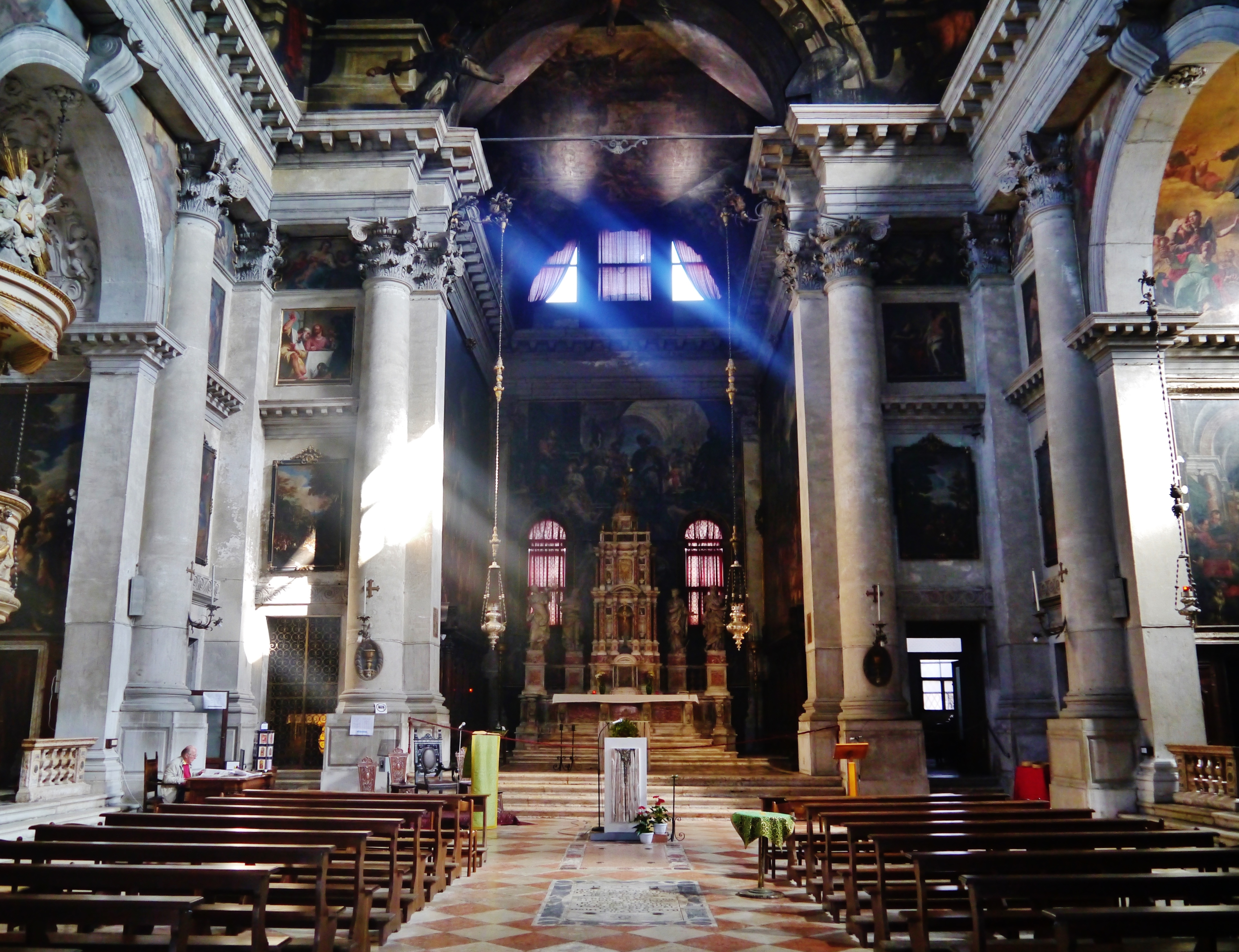 Nave of the Church of St. Pantalon, Venice, Metropolitan City of Venice, Region of Veneto, Italy